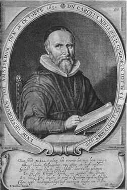 Portrait of Carolus Niellius (1576-1652), Remonstrant minister.